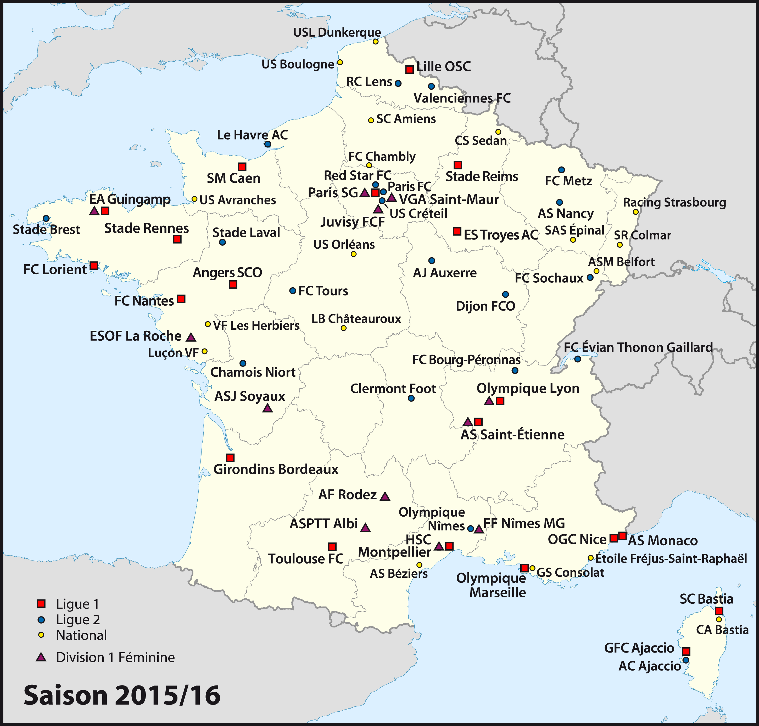 Map of the Ligue 1, Ligue 2, Championnat National and Division 1 Féminine teams for 2015/16 season